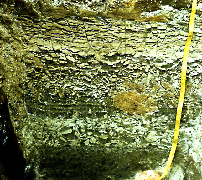 Cryogenic structure of the upper horizon of permafrost rocks (intermediate layer) in the Yamal Peninsula, 1992. Ataxic and network-like cryotexture. Red spot-inclusion of peat